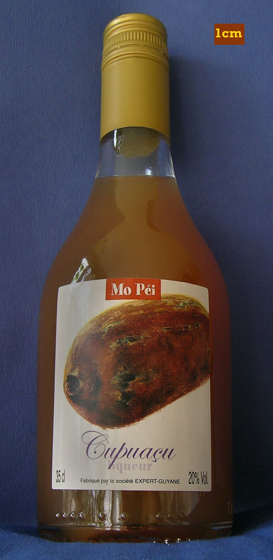 bottle of "copoaçu" or "cupuassu" liqueur, made from Theobroma grandiflorum (Amazonian cacao-tree)